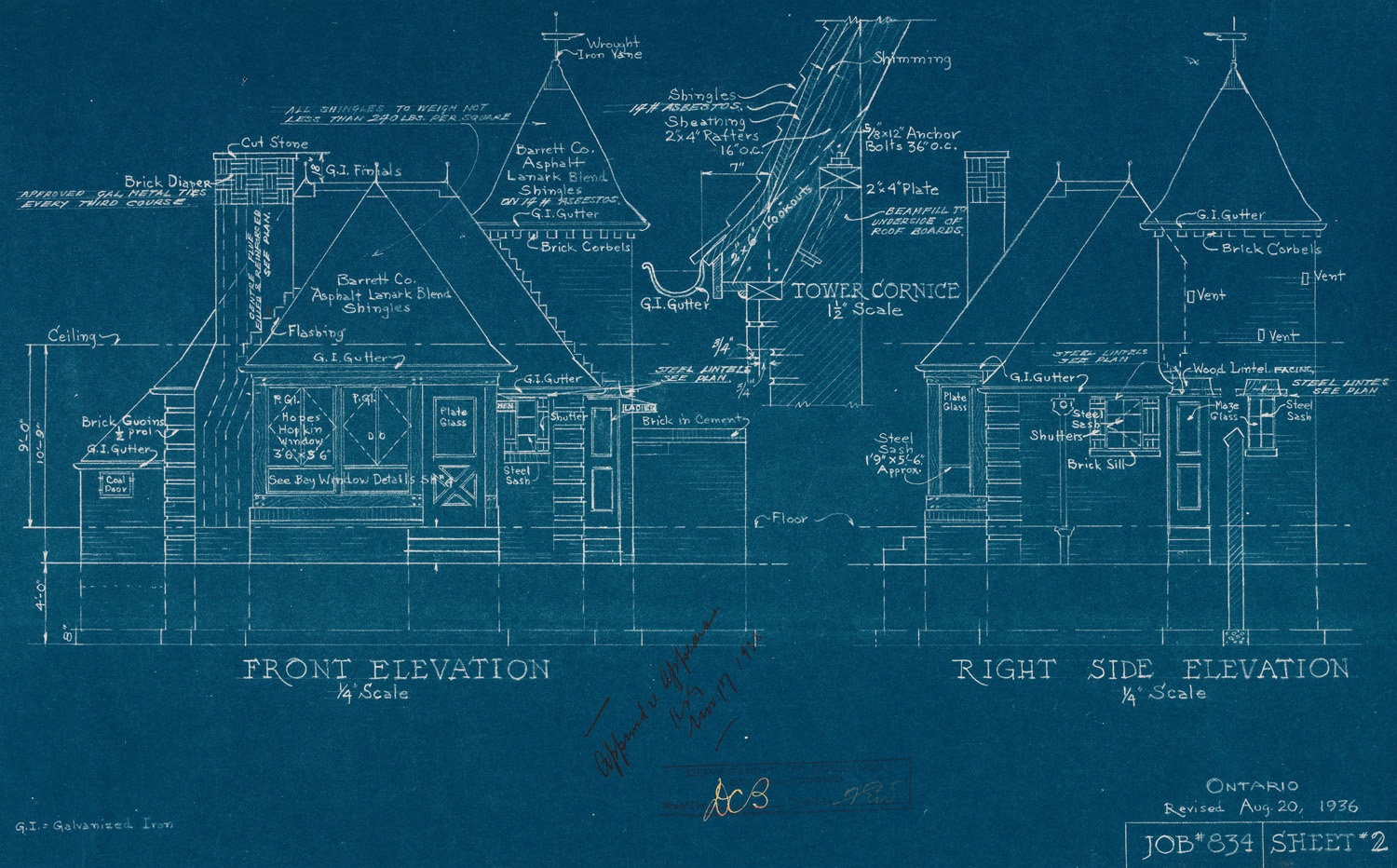 Joy Gas service station elevation drawings, 910 Lake Shore Road Blvd W., Toronto, Canada.